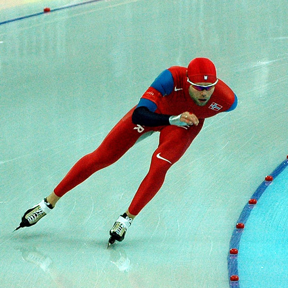 Lasse Sætre at the 2006 Olympics in Torino.